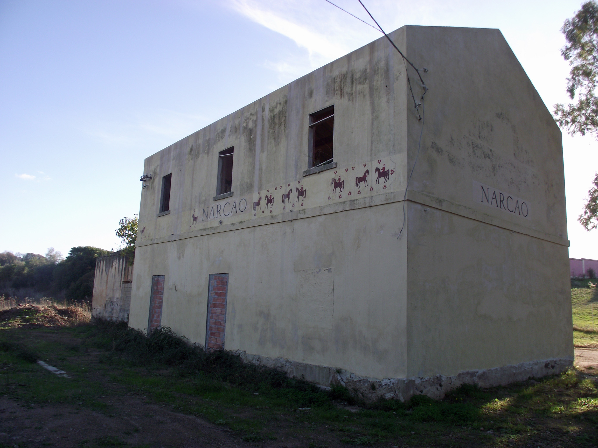 The passenger building of the former FMS railway station of Narcao, in Sardinia, Italy, along the former railway Siliqua-San Giovanni Suergiu-Calasetta, closed in 1974.